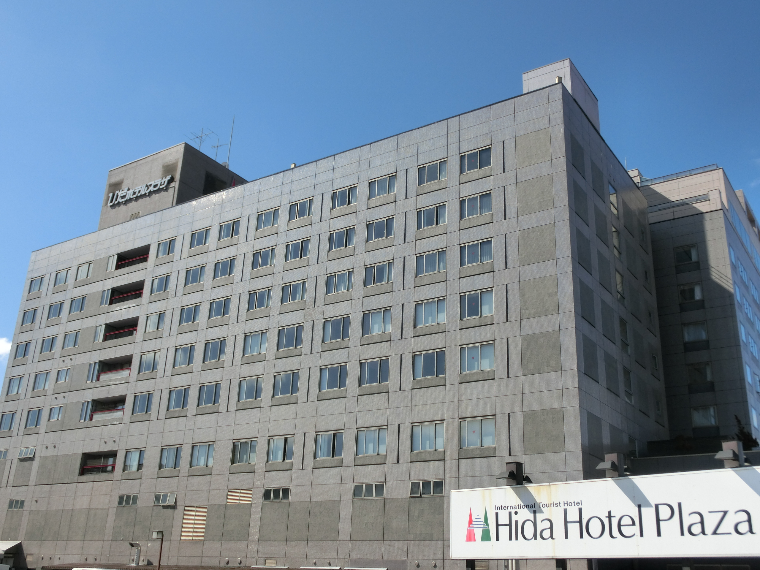 Hida Hotel Plaza